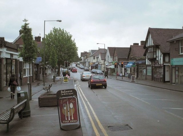 The Street, Ashtead (view NE). The Street is Ashtead's main thoroughfare and most of the village's shops and services are located here. Traffic is often heavy as it is the route followed by the A24 London to Worthing road. A by-pass to the south of the village was projected in the late 1940s but the plan was ultimately rejected. Looking NE towards Epsom.